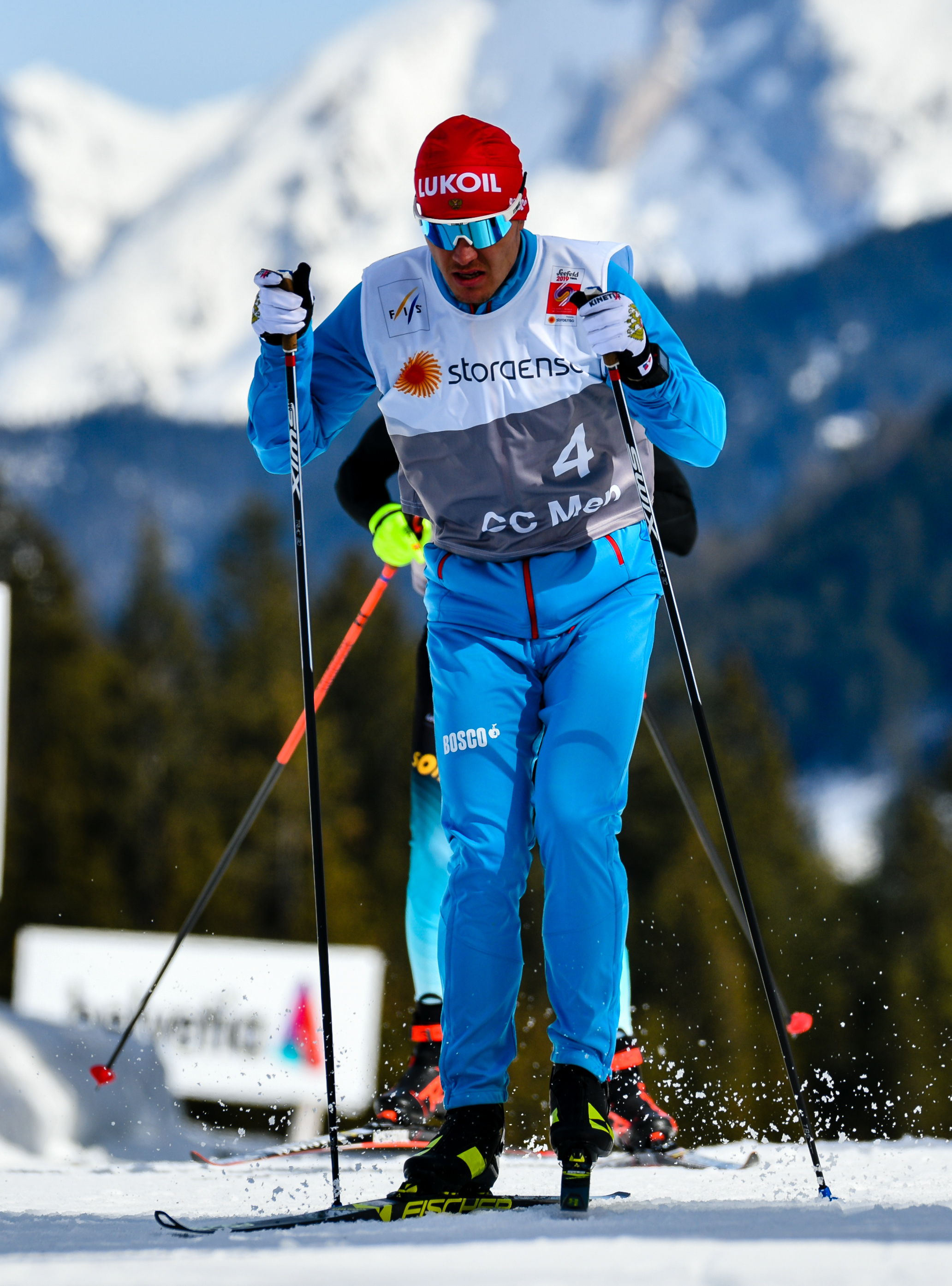 FIS Nordic World Ski Championships Seefeld 2019 - Men Cross Country 50km Mass Start Free. Picture shows Andrey Melnichenko (RUS).